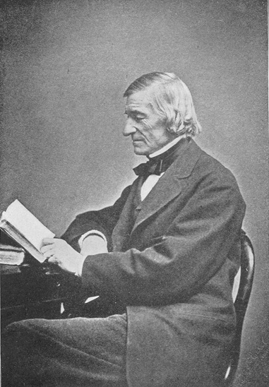 William Barton Rogers. Founder and First (and Third) President of MIT.